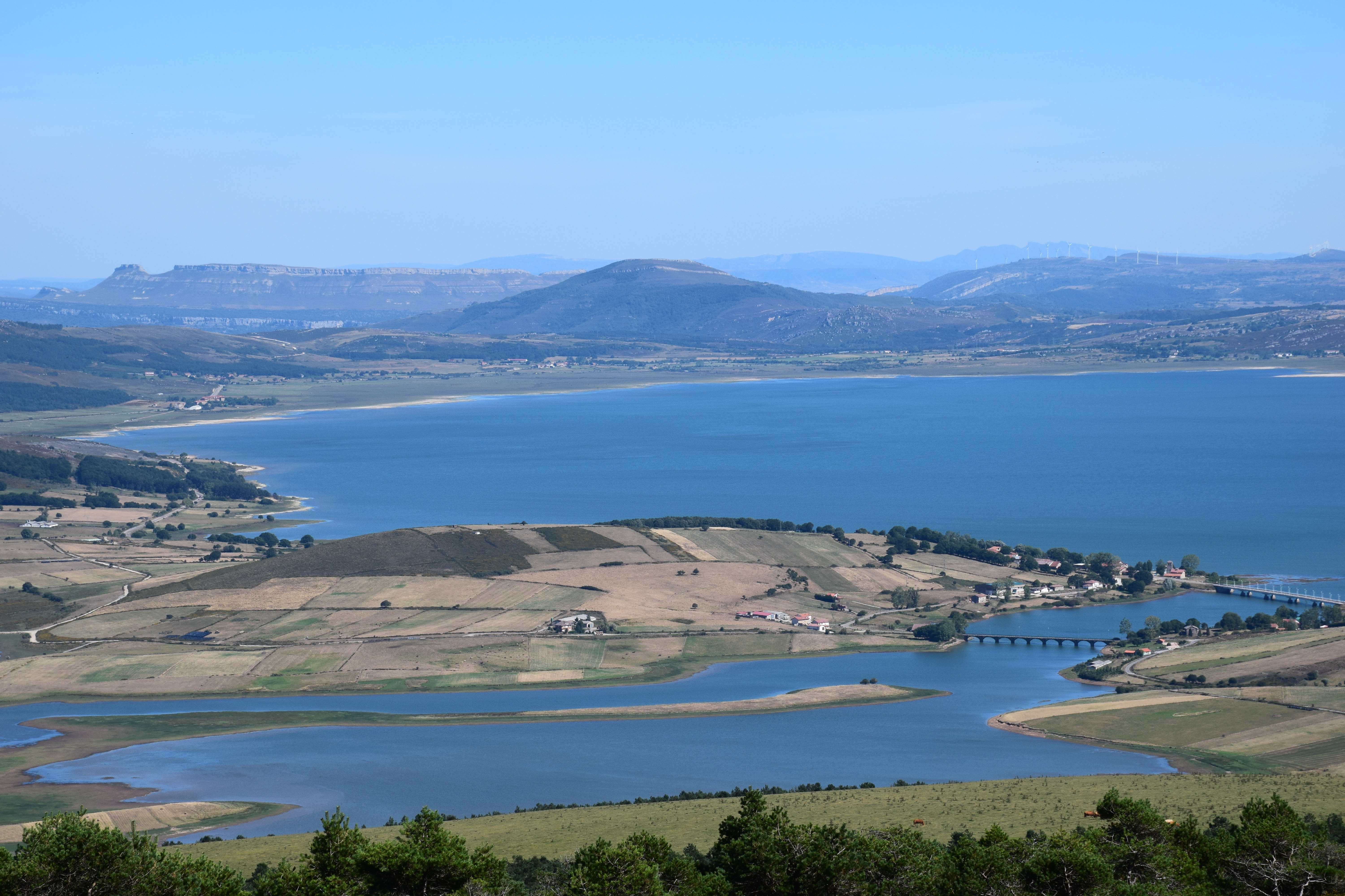 Roman camp of El Cincho. In the upper part of the peninsula that was formed when the Ebro reservoir was filled, the rectangular shape of the Roman camp, the only visible trace after more than 2000 years, can be seen.